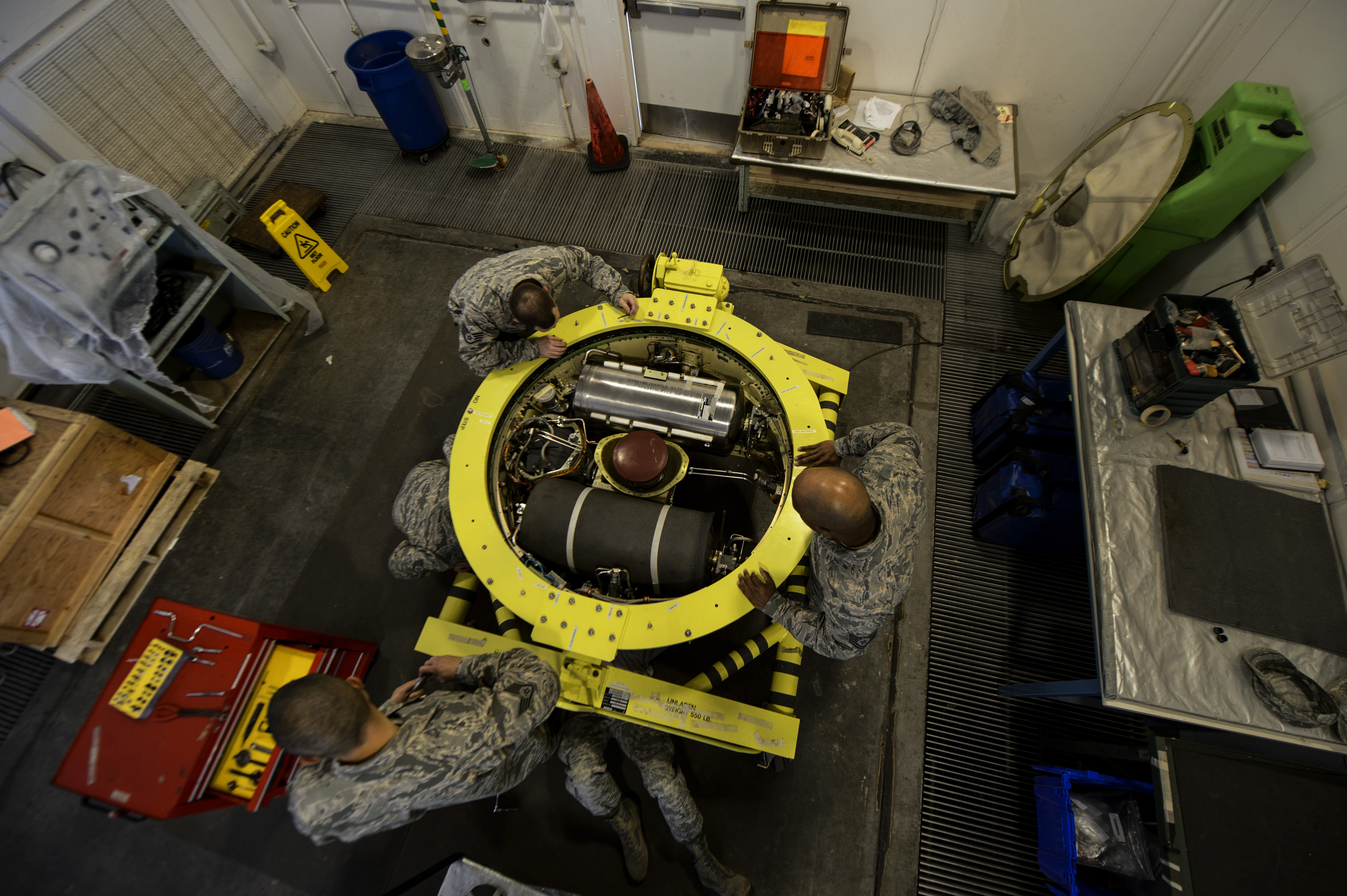 Missile maintenance technicians from the 576th Flight Test Squadron works on a Minuteman III component at Vandenberg Air Force Base, Calif., Feb. 3, 2014. The Minuteman III is regularly tested with launches from Vandenberg in order to validate the effectiveness, readiness and accuracy of the weapon system, as well as to support the system's primary purpose - nuclear deterrence. (U.S. Air Force photo by Staff Sgt. Jonathan Snyder/RELEASED)